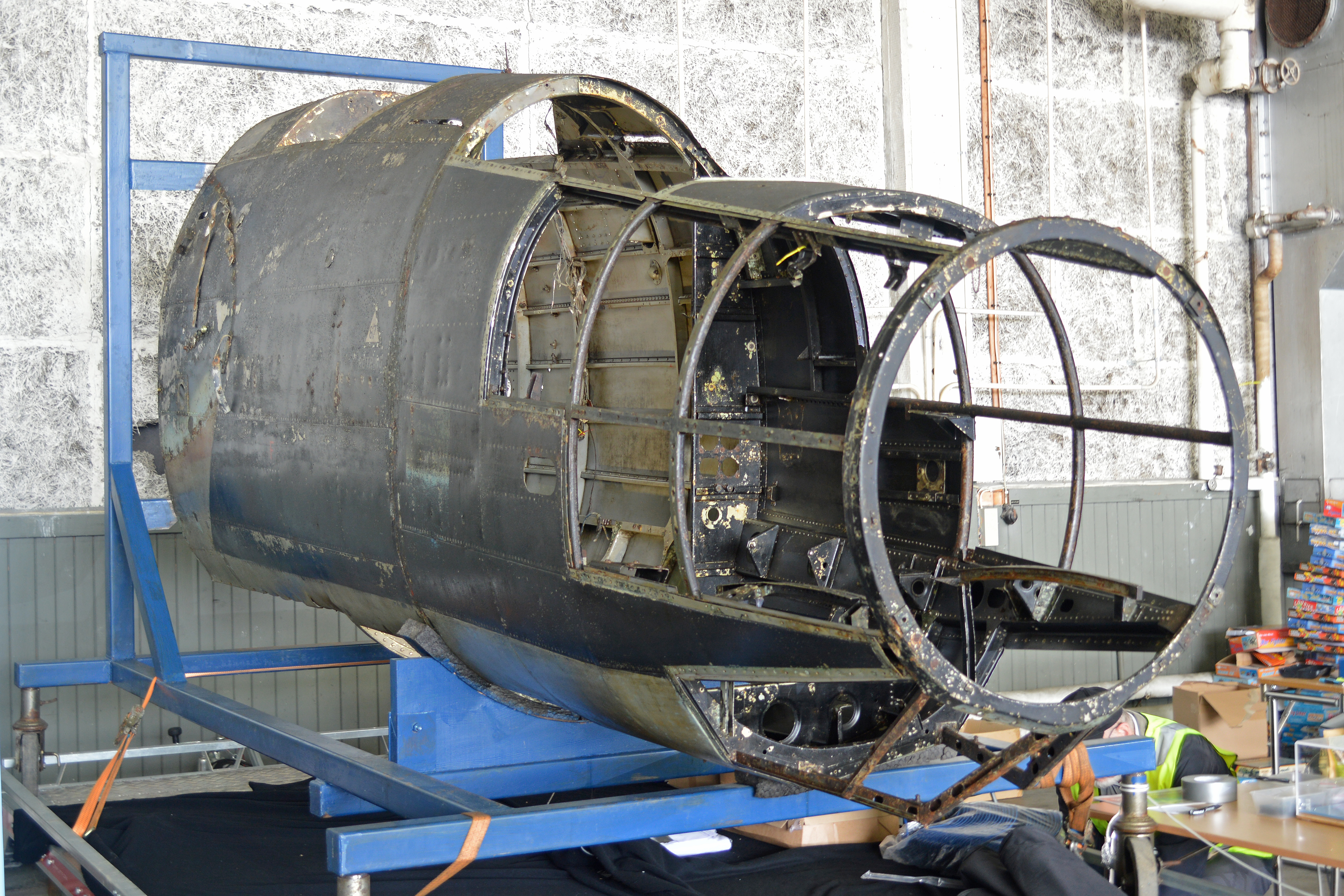 During WW2 the water adjacent to what is now Sola airport was used as a seaplane base by the Luftwaffe. On 28th December 1942, a Heinkel He115 of Luftflotte 5 (c/n 2398, coded 8L+FH), crashed and sank while landing. In 2006 the intact remains of the aircraft were located and in June 2012 they were raised and recovered. Except for the floats and the starboard engine the aeroplane was complete and everything recovered was extremely well preserved. It is now under restoration by the Flyhistorisk Museum Sola with the cockpit and nose section being used as a mobile exhibit. Original markings are clearly visible, showing the level of preservation. This amazing relic was on display at the 2017 Sola Airshow, Stavanger Airport, Sola, Norway. 10th June 2017